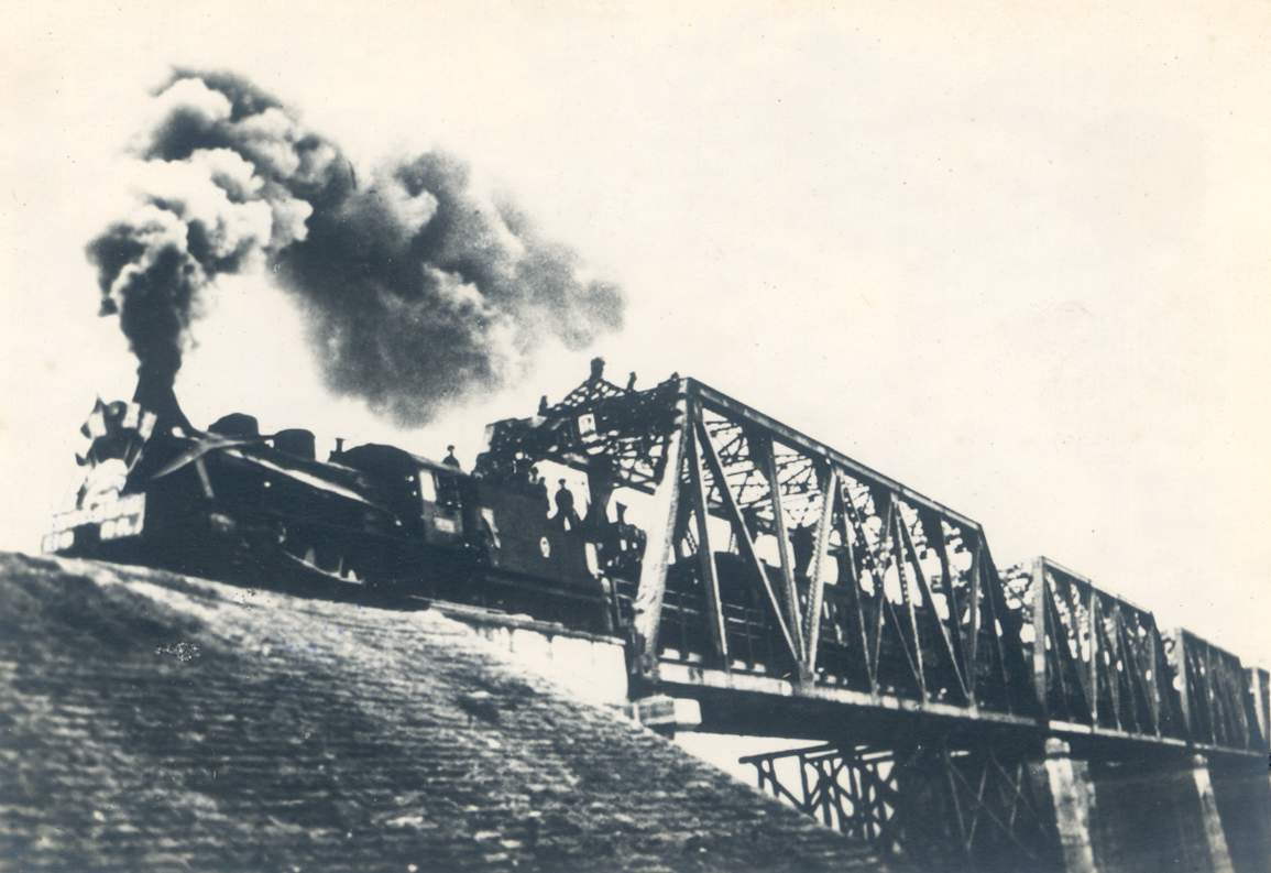 Chengyu Railway (from Chengdu to Chongqing) was opened in 1953-7-30. The first train was running on the line.